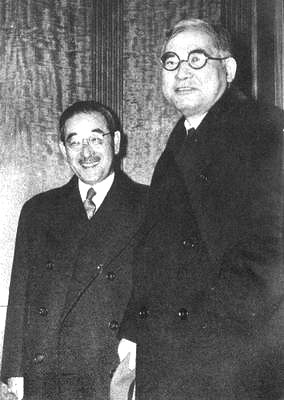 Japanese Special Envoy Saburō Kurusu (1886–1954, left) and Ambassador Admiral Kichisaburō Nomura (1877–1964).